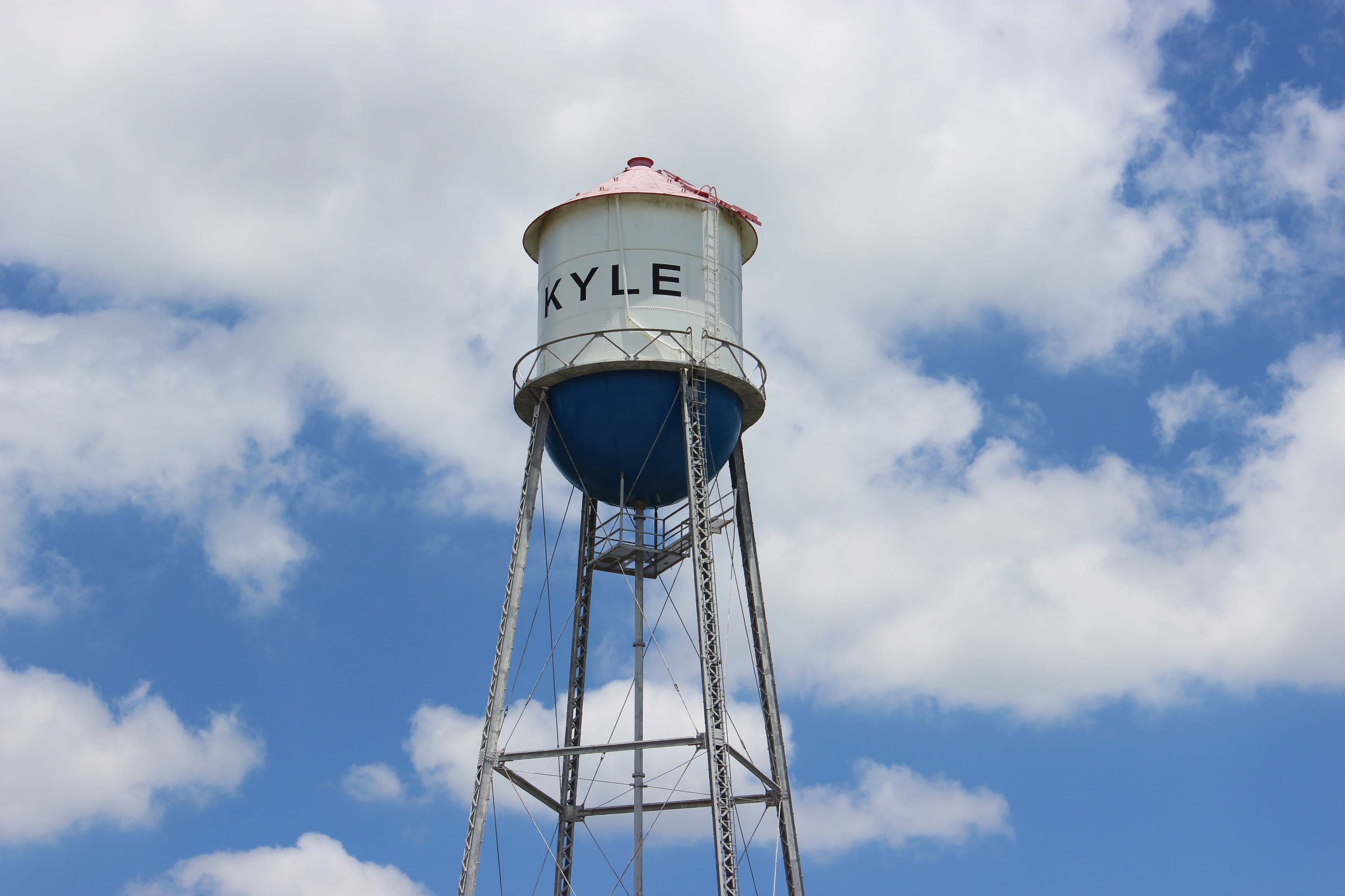 Water tower in Kyle, Texas